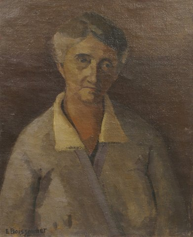 Edmond Boissonnet